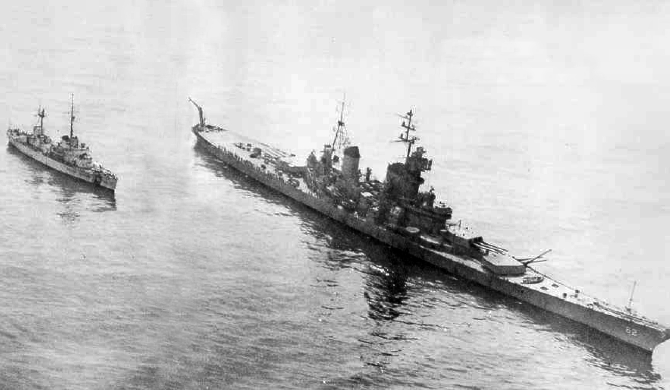 The U.S. Navy battleship USS New Jersey (BB-62) and the U.S. Coast Guard cutter USCGC Owasco (WHEC-39) underway off Vietnam, in 1968.